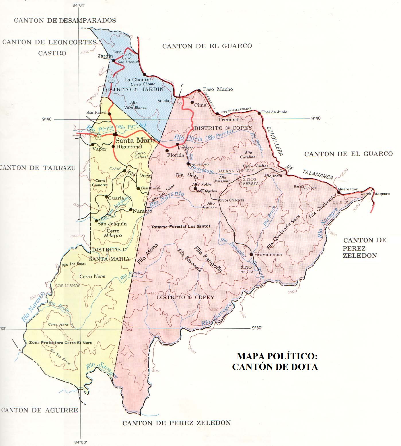 San José